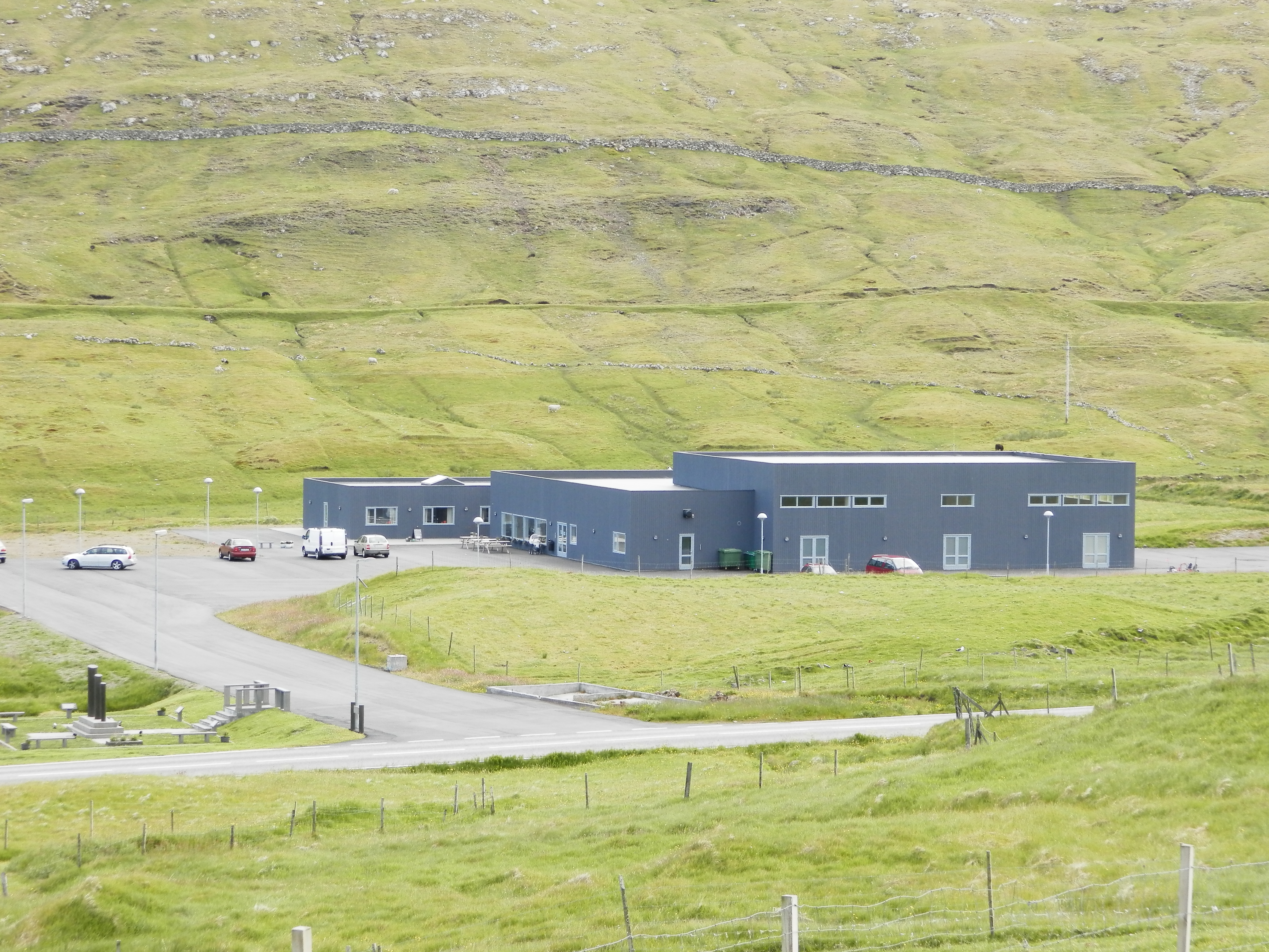 Skálavík is a village on the islands Sandoy in the Faroe Islands. Depilin í Skálavík is a holiday and conference center.